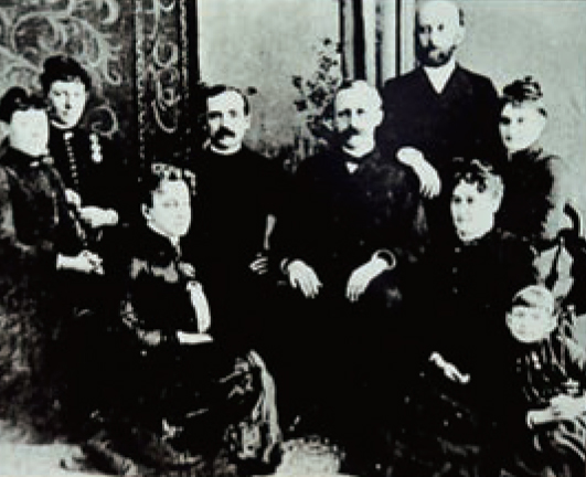 Seminarians in Sendai, Japan, 1888; David Bowman Schneder fourth from left and William Edwin Hoy standing far to right